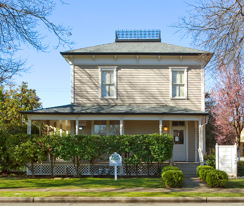 Edward Frisbie House, 1246 East Street in Redding, California